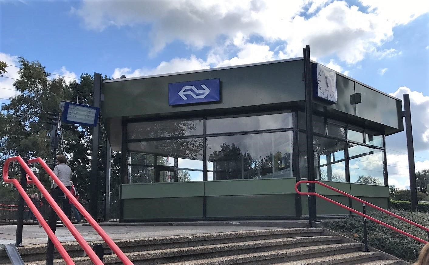 Station Haren.